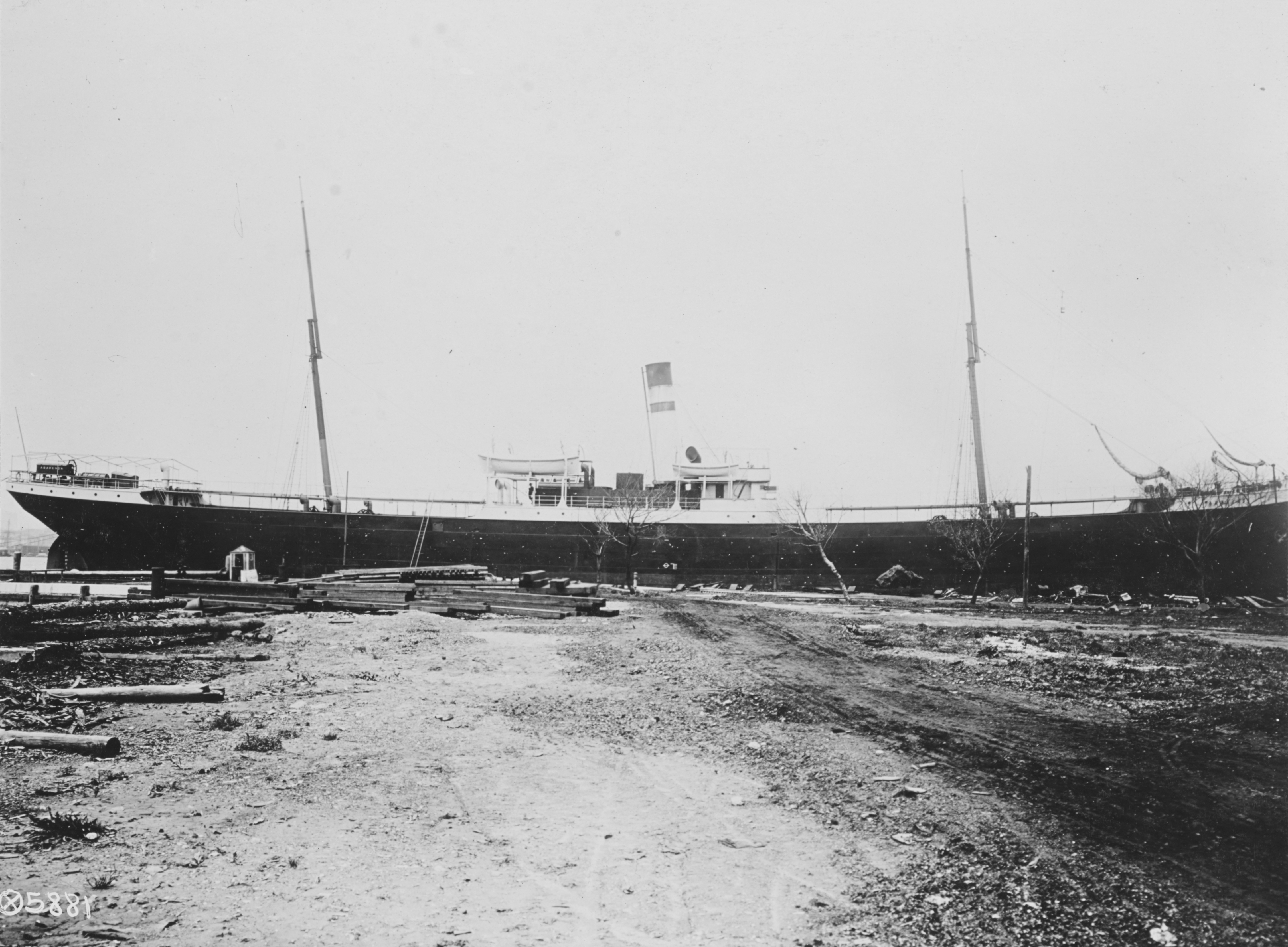 At the New York Navy Yard, Brooklyn, New York, May 1898, while being fitted for war service. Photograph from the Army Signal Corps Collection in the U.S. National Archives.